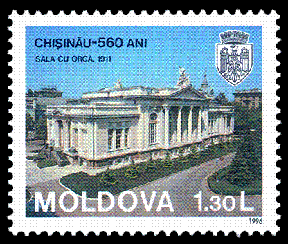 Stamp of Moldova